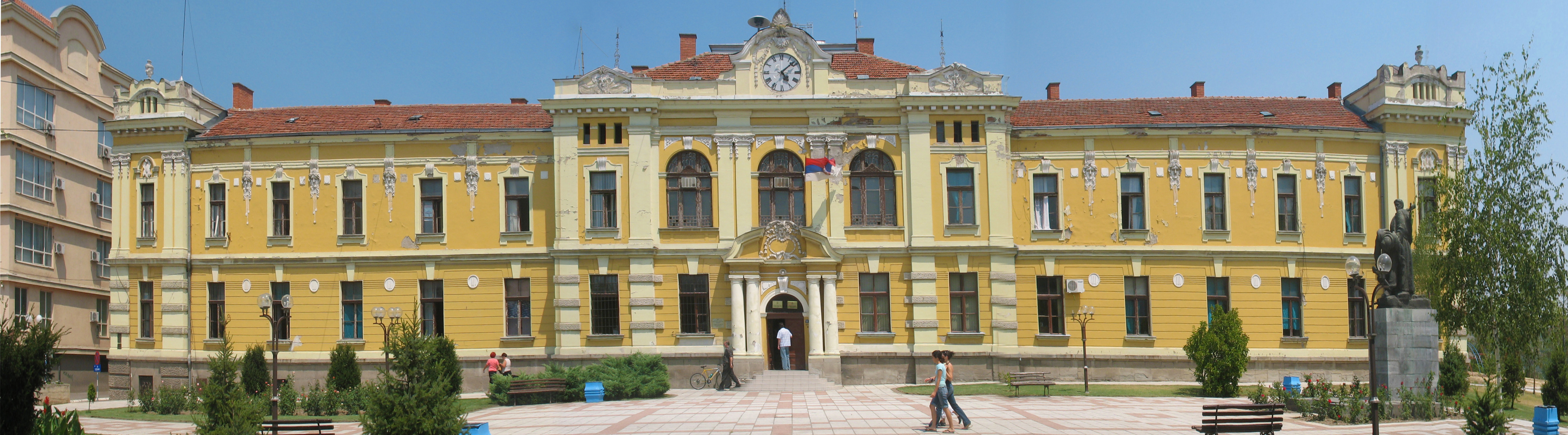 Town Hall in Prokuplje